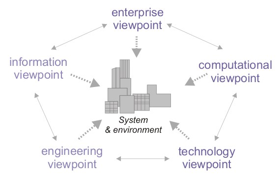 Global illustration of the RM-ODP Viewpoints